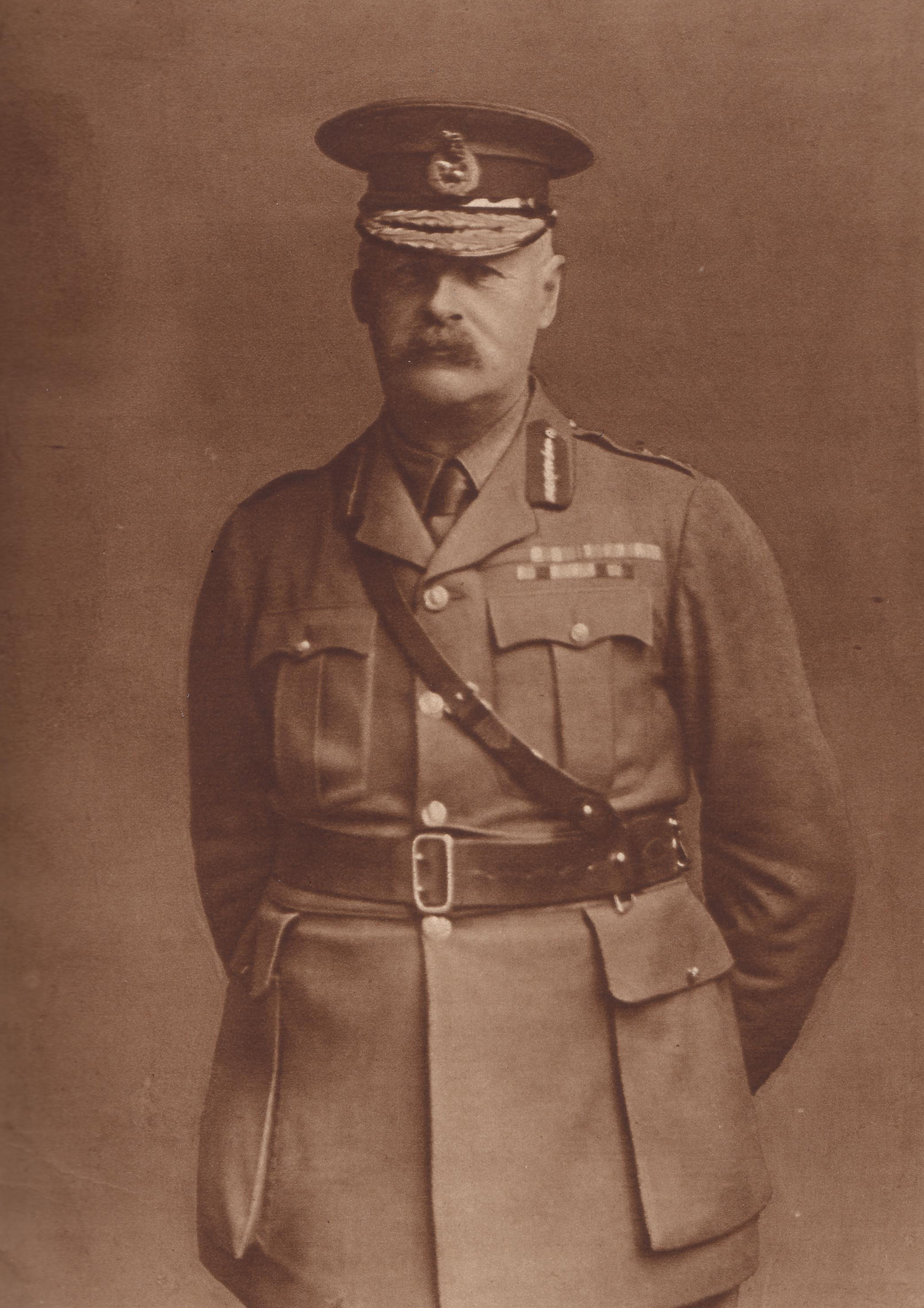 Lieut-General Thomas d'Oly Snow